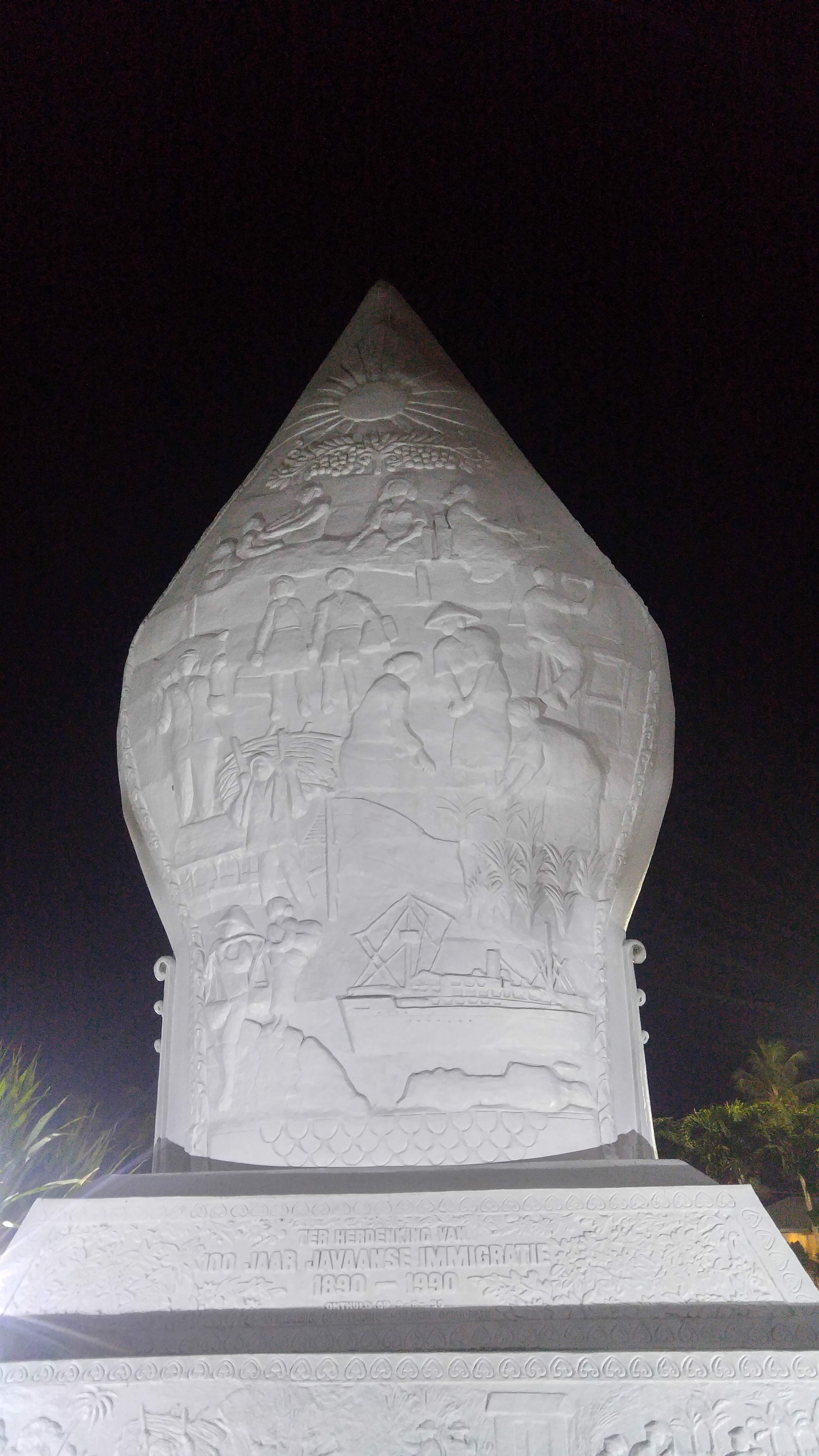 Monument commemorating the 100 years (1890-1990) of Javanese presence in Suriname. Sana Budaya, Paramaribo, Suriname.